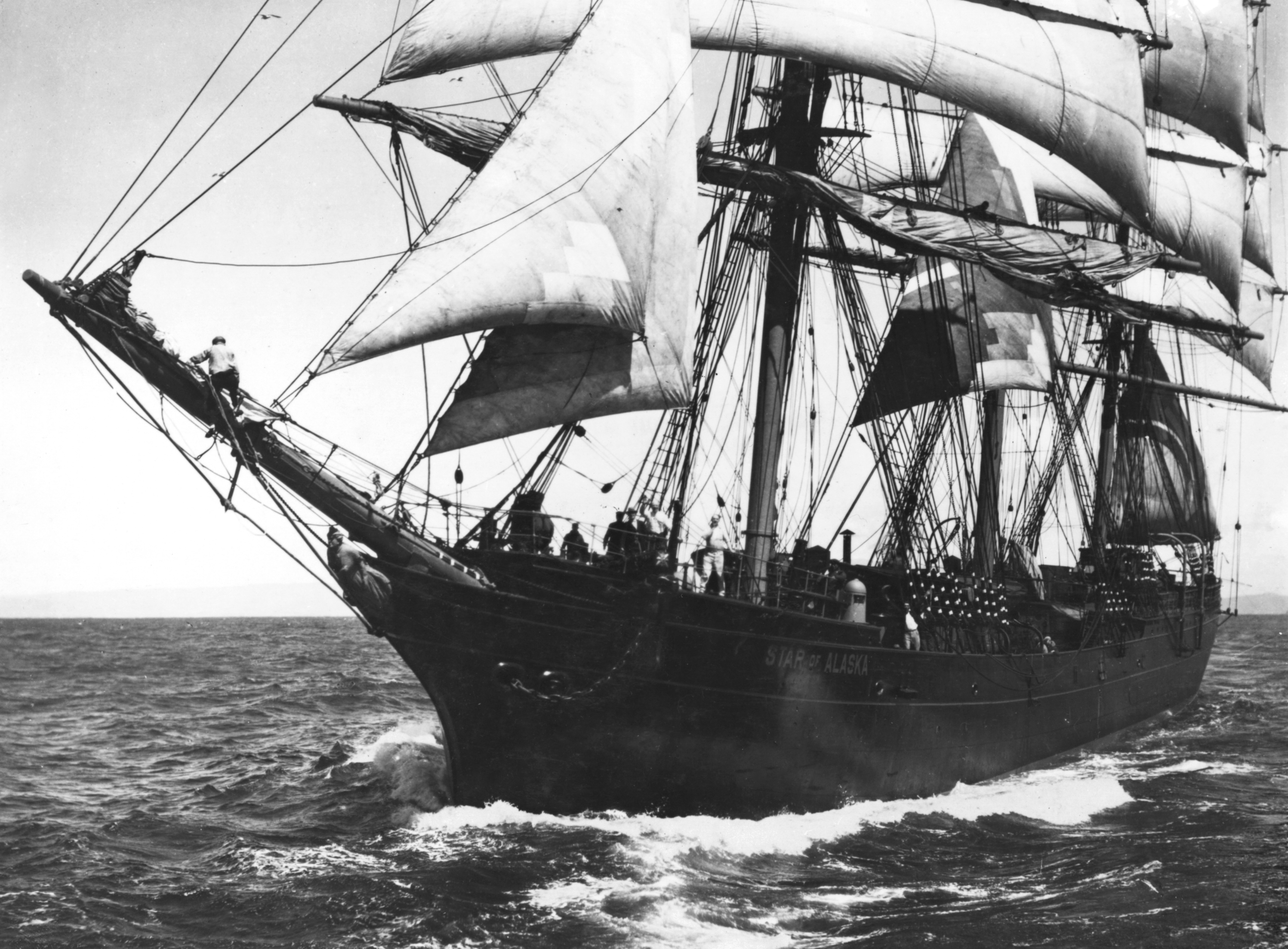 When the full rigged BALCLUTHA was a member of the Alaska Packer's Association in the early 1900s, she was named the STAR of ALASKA. Here she is underway with some of her squaresails and staysails set.